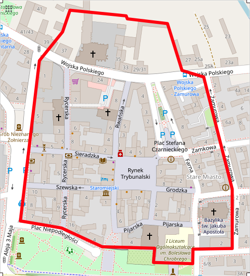 Map of Old Town in Piotrków Trybunalski in Poland. This map may be incomplete, and may contain errors. Don't rely solely on it for navigation.